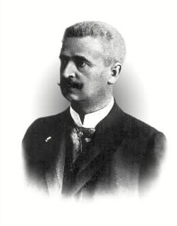 Bulgarian politician Konstantin Stoilov